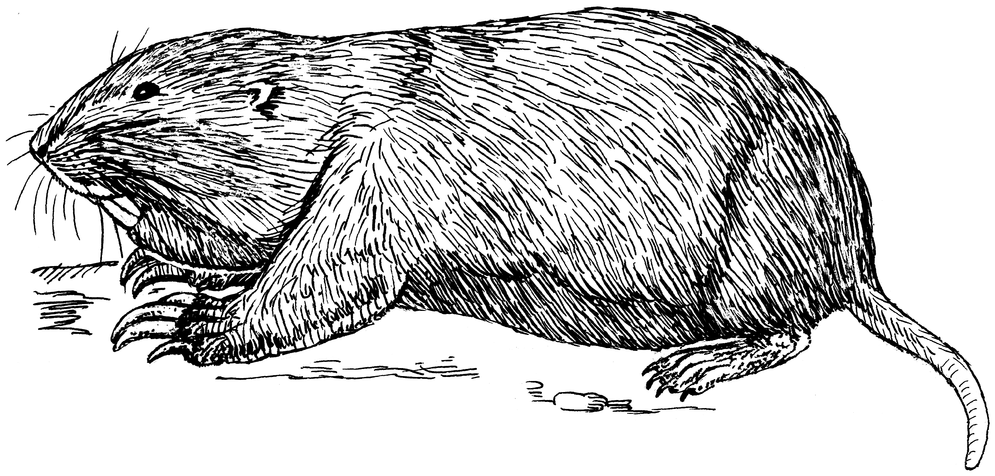 Line art drawing of a gopher.